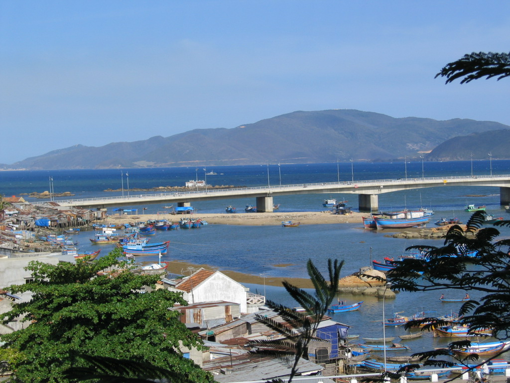 Tran Phu bridge cross Cai River, Nha Trang, Vietnam